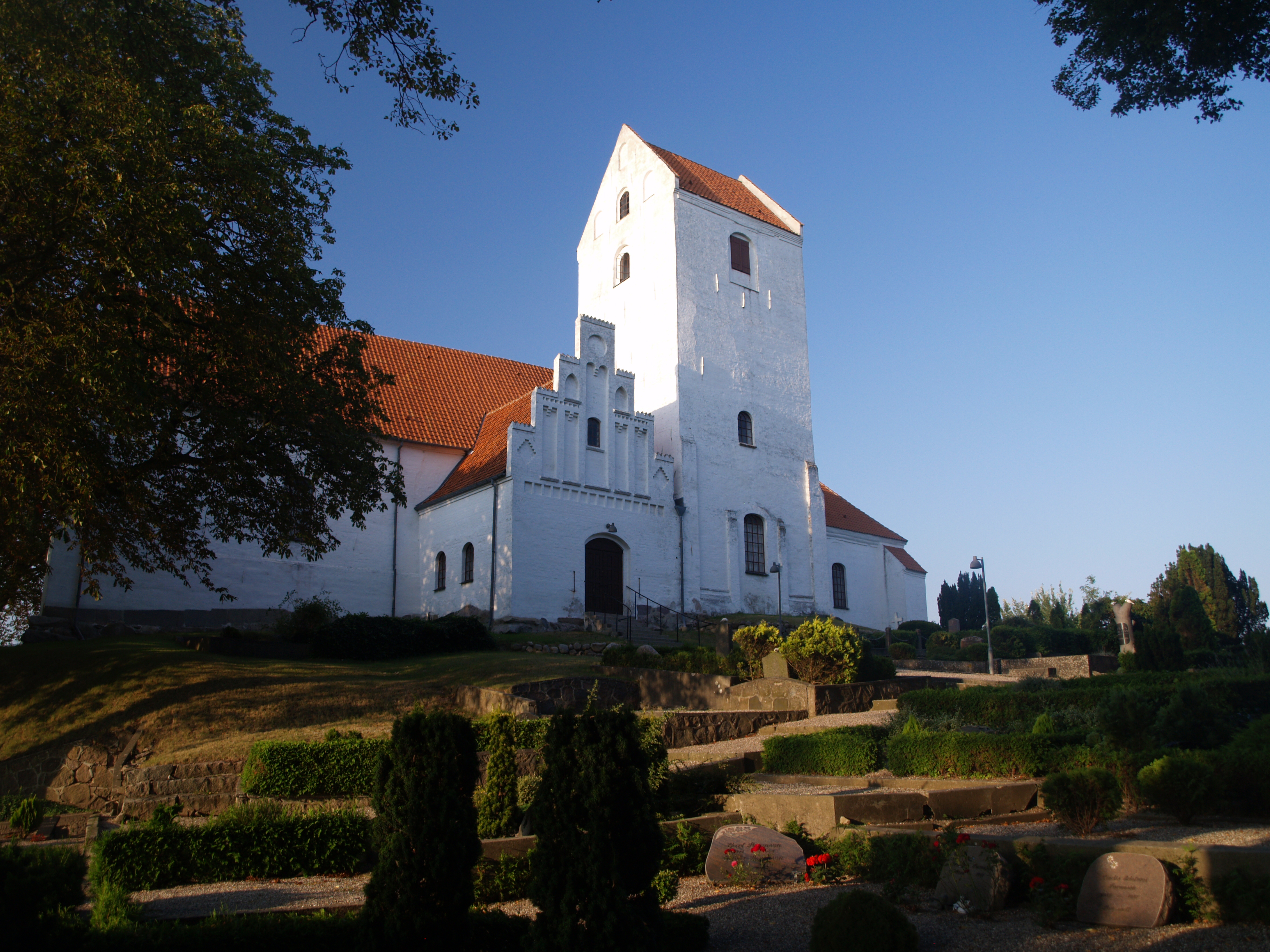 The church in Humble on Langeland island, Denmark